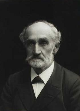 Danish farmer, politician MP Jørgen Christian Sørensen (1836-1915)